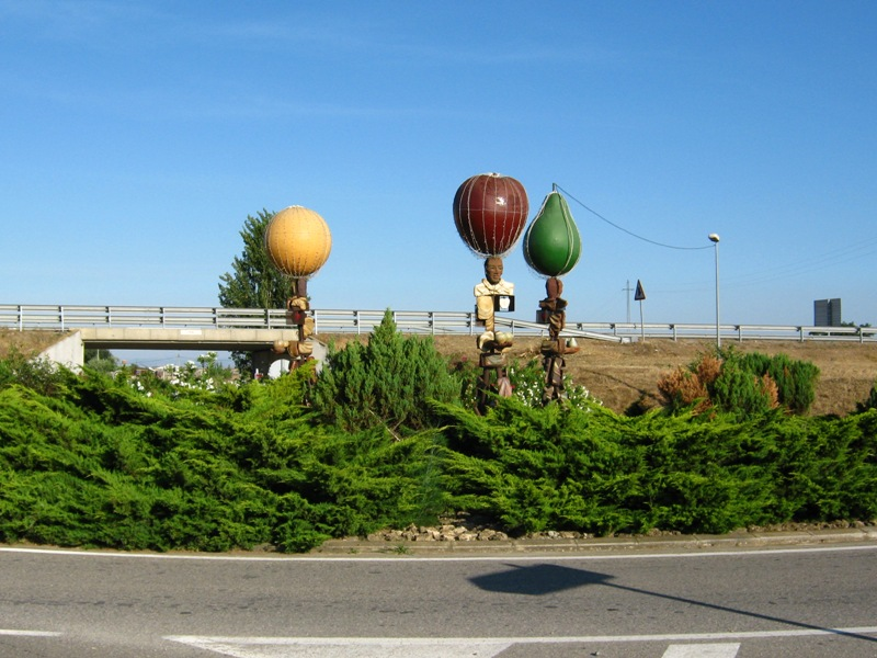 Fruit sculpture in the entrance roundabout to the town of Torrelameu